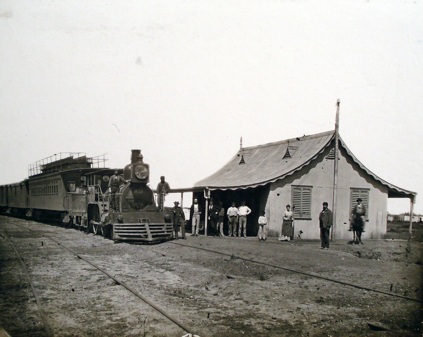 First building of Ensenada train station, terminus of Buenos Aires & Ensenada Port Railway. It was opened in 1872 and destroyed by fire in 1887.